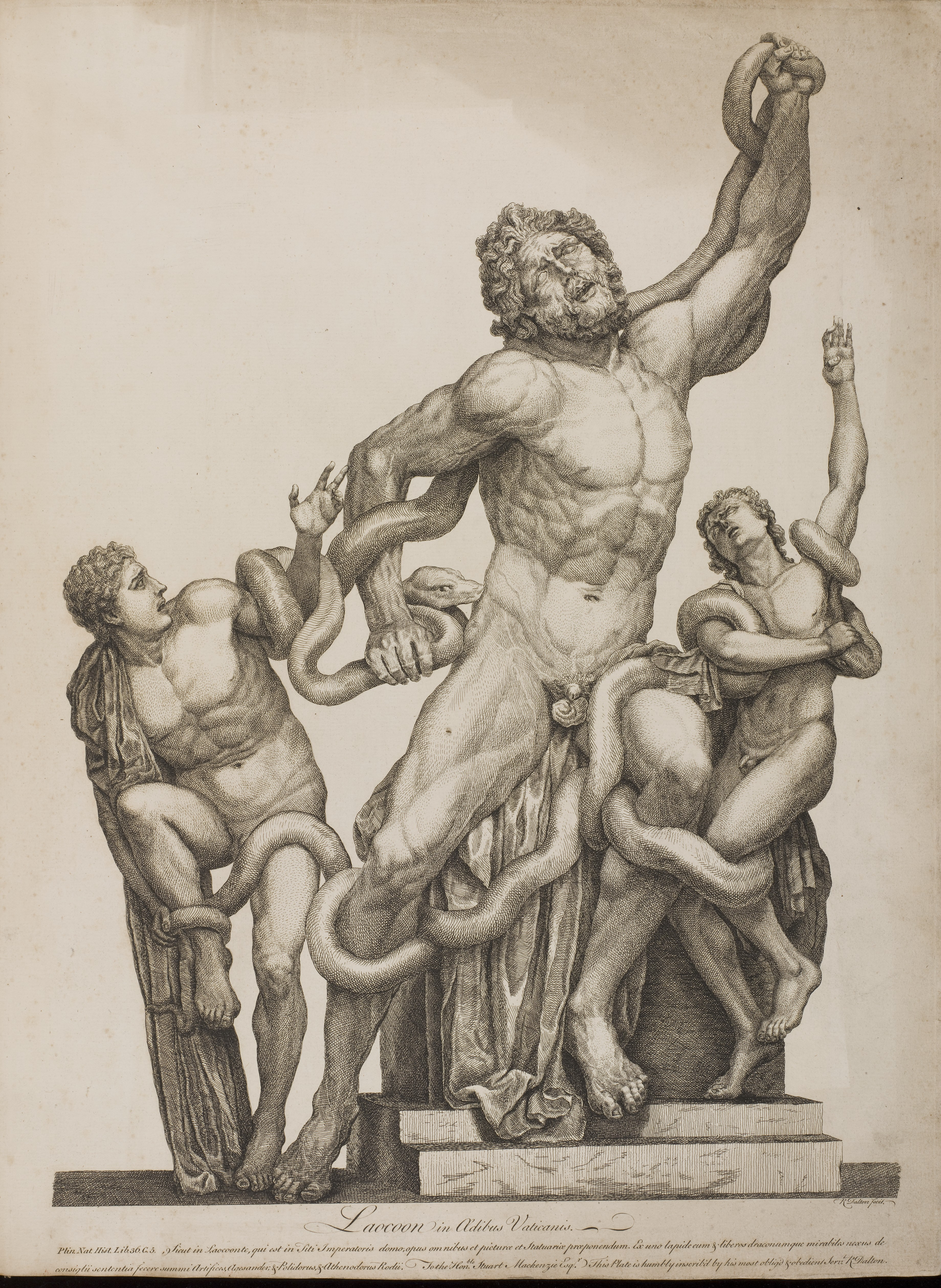 Laocöon and his sons, attacked by sea snakes. Iconographic Collections Keywords: James Stuart Mackenzie; Richard Dalton